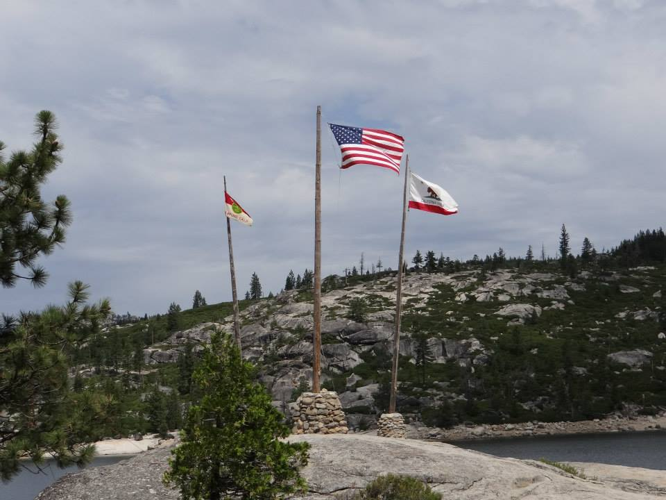 Large rock protruding out of Lower Bear River Reservoir, and serves as a place to hold flag ceremonies for Camp Winton, BSA.